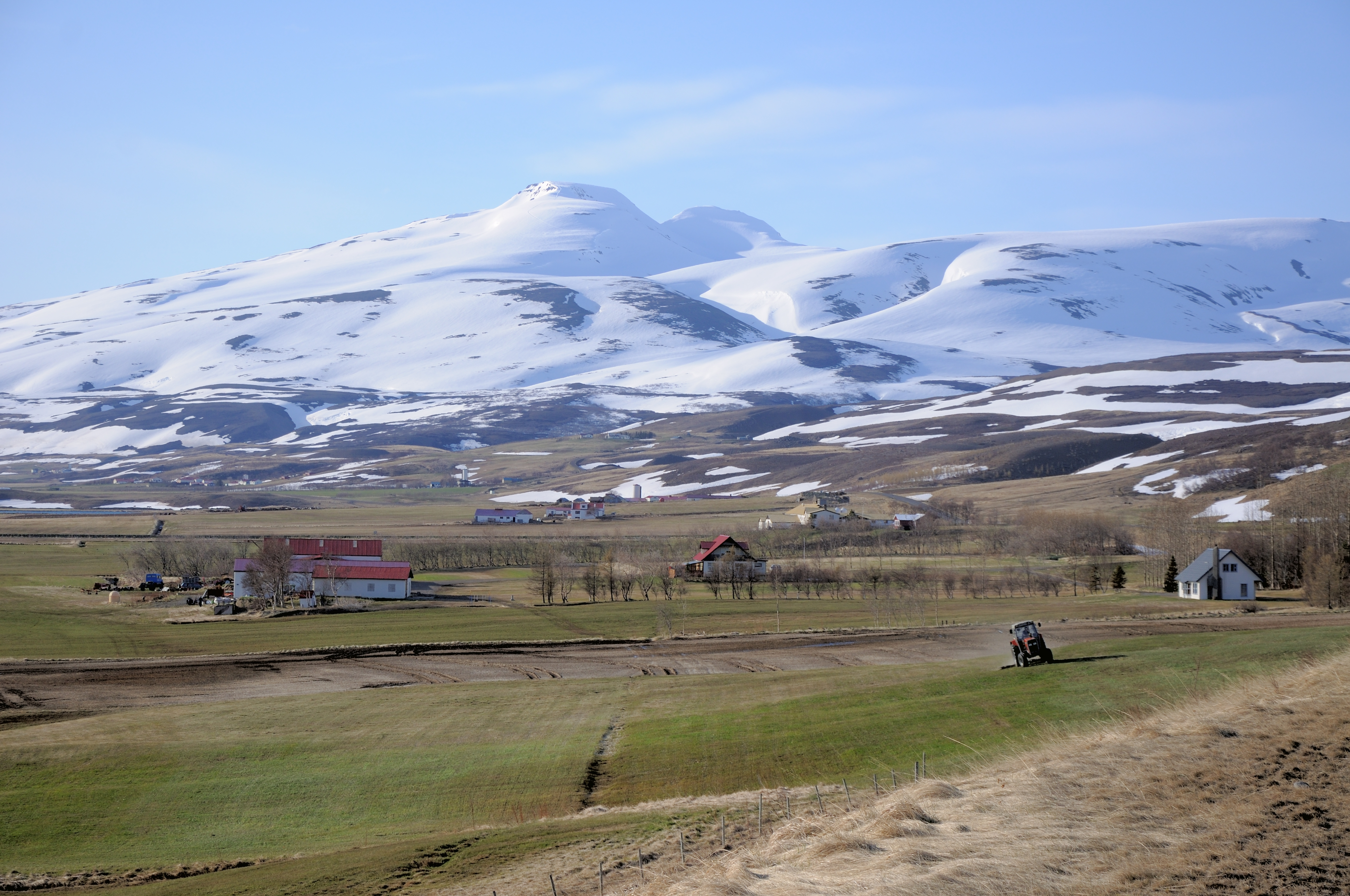 Iceland, along road 83 to Grenivik